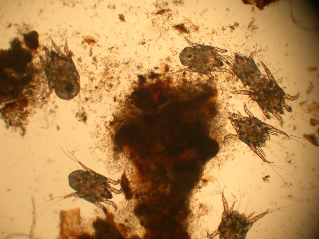 microscopic image of Otodectes cynotis (ear mites) obtained from a cat